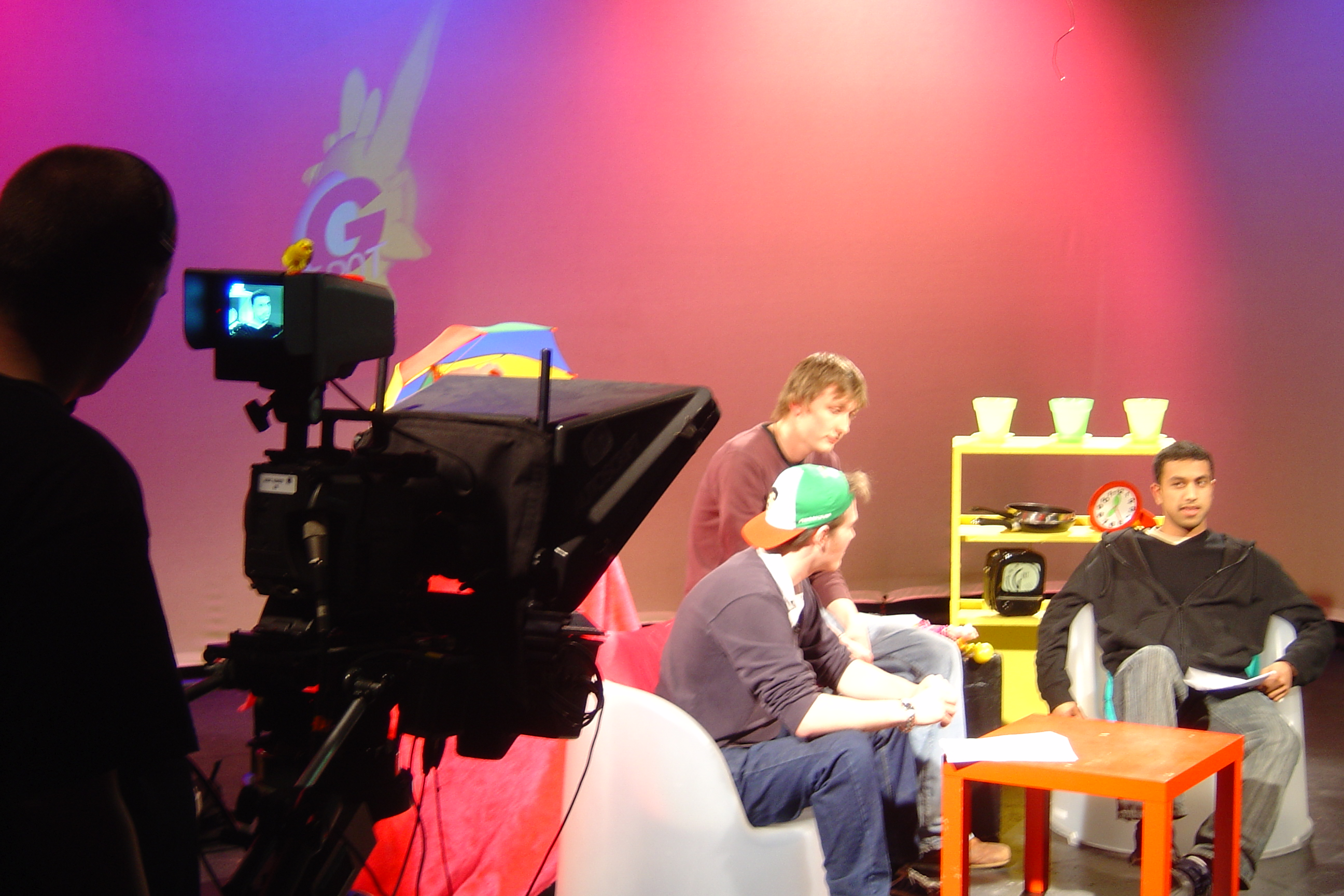 Image of the Glasgow University Student Television station studio, taken during weekly filming in May 2006. For use in Student Television in the United Kingdom (work in progress, see here.)